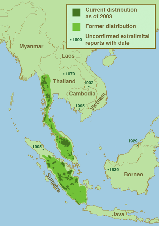 Current and historic range of the Malayan Tapir (Tapirus indicus) as of 2003